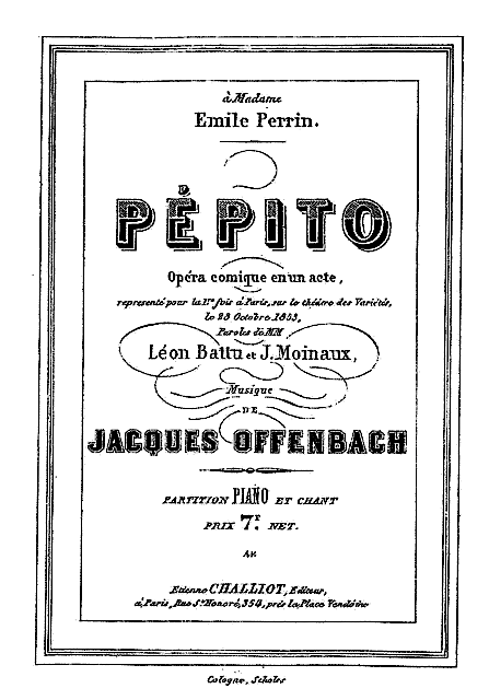 Pépito, cover of the original music sheet published by Chailliot in Paris.